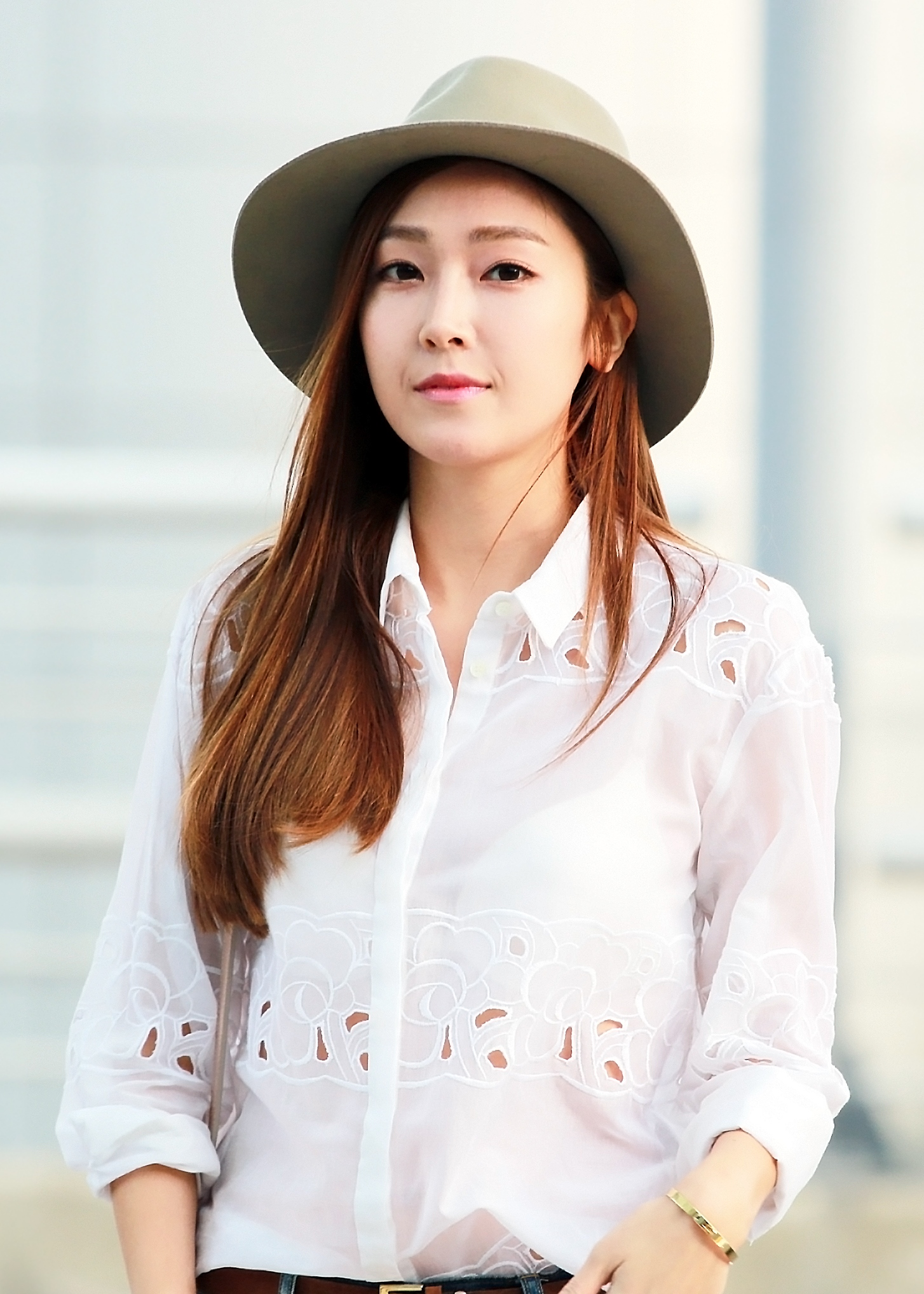 Jessica Jung at Incheon International Airport on April 23, 2015.